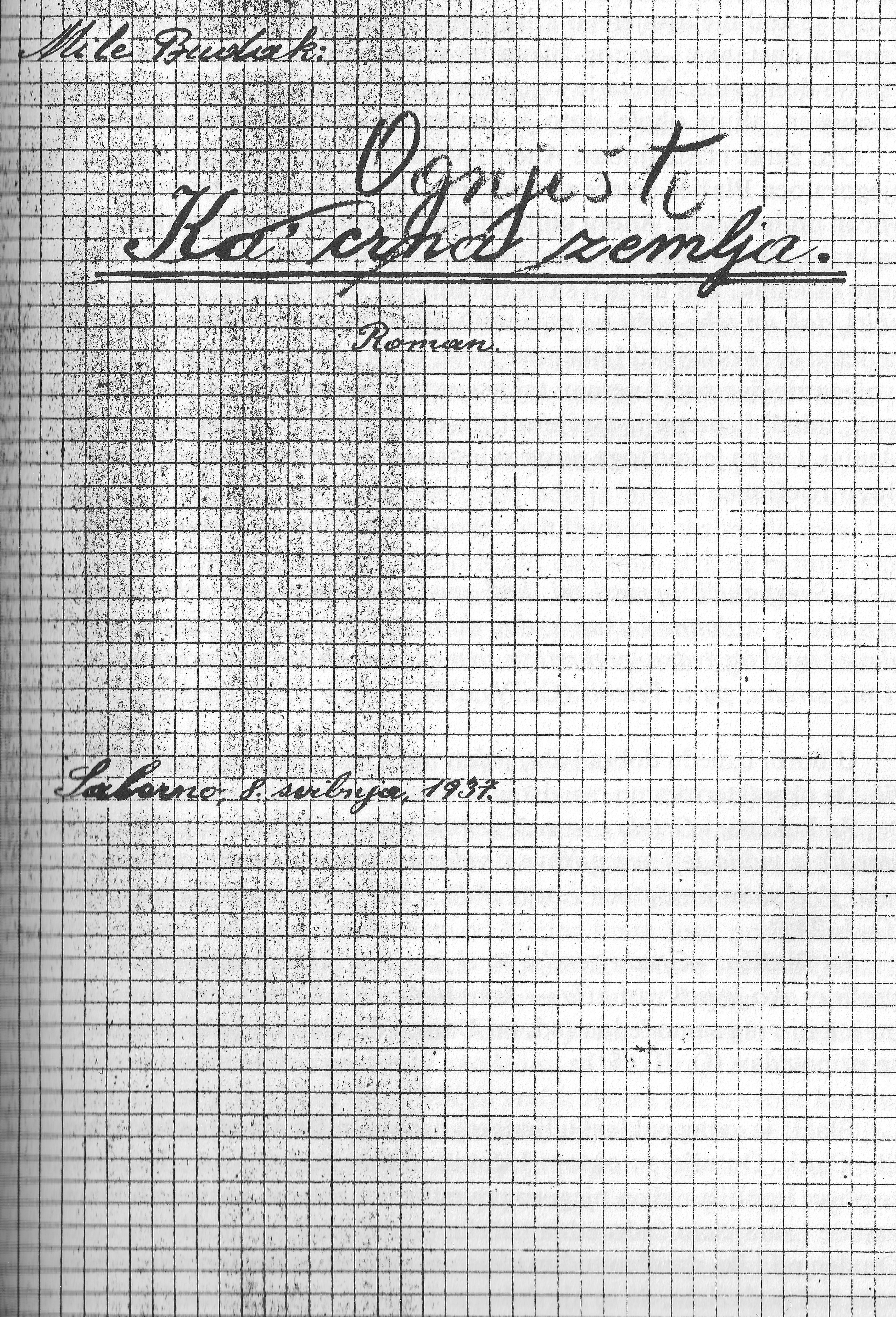 Manuscript, Page 1